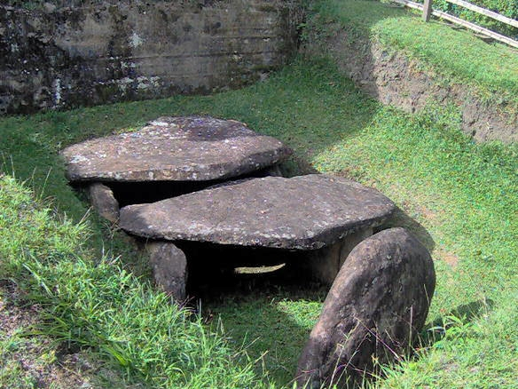 Tomb of the San Agustín indian cult in Colombia